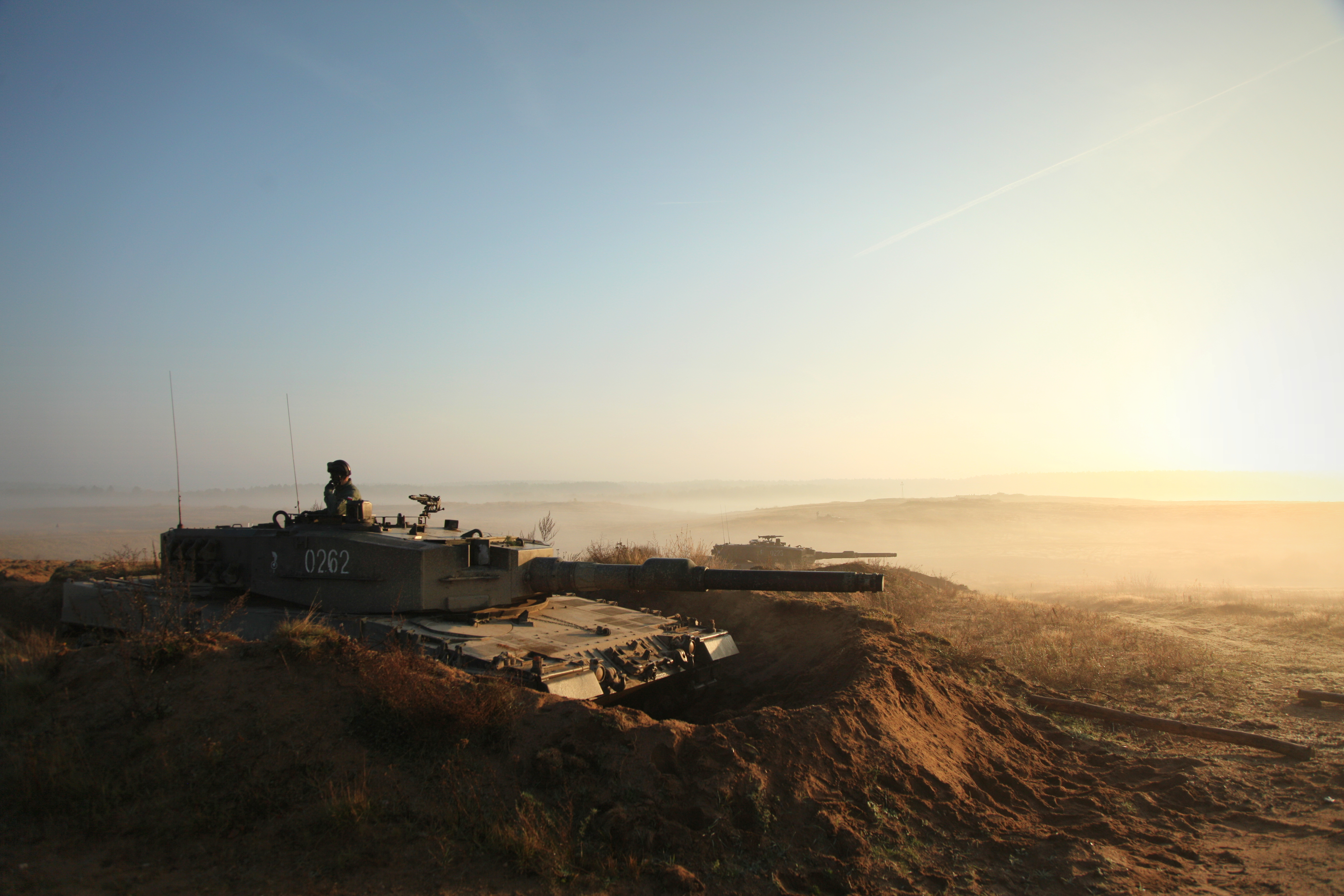 Polish Army´s tanks Leopard II in a defence position. Exercise Steadfast Jazz 2013 is taking place from 1-9 November in a number of Alliance nations including the Baltic States and Poland. The purpose of the exercise is to train and test the NATO Response Force, a highly ready and technologically advanced multinational force made up of land, air, maritime and special forces components that the Alliance can deploy quickly wherever needed. The Steadfast series of exercises are part of NATO’s efforts to maintain connected and interoperable forces at a high-level of readiness. (Photo: Cpl Madis Veltman EST Army)